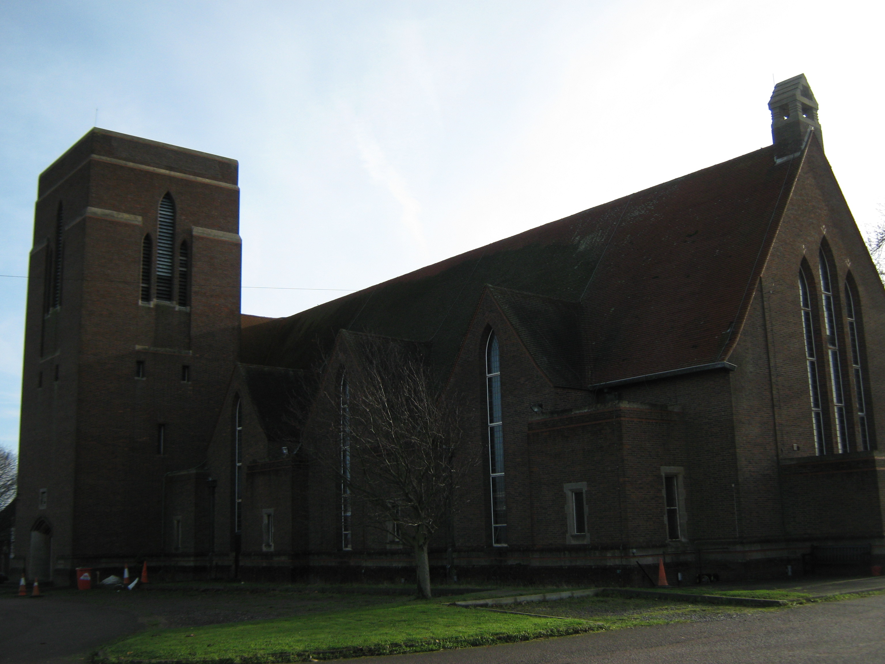 The Tower Theatre, Cheriton